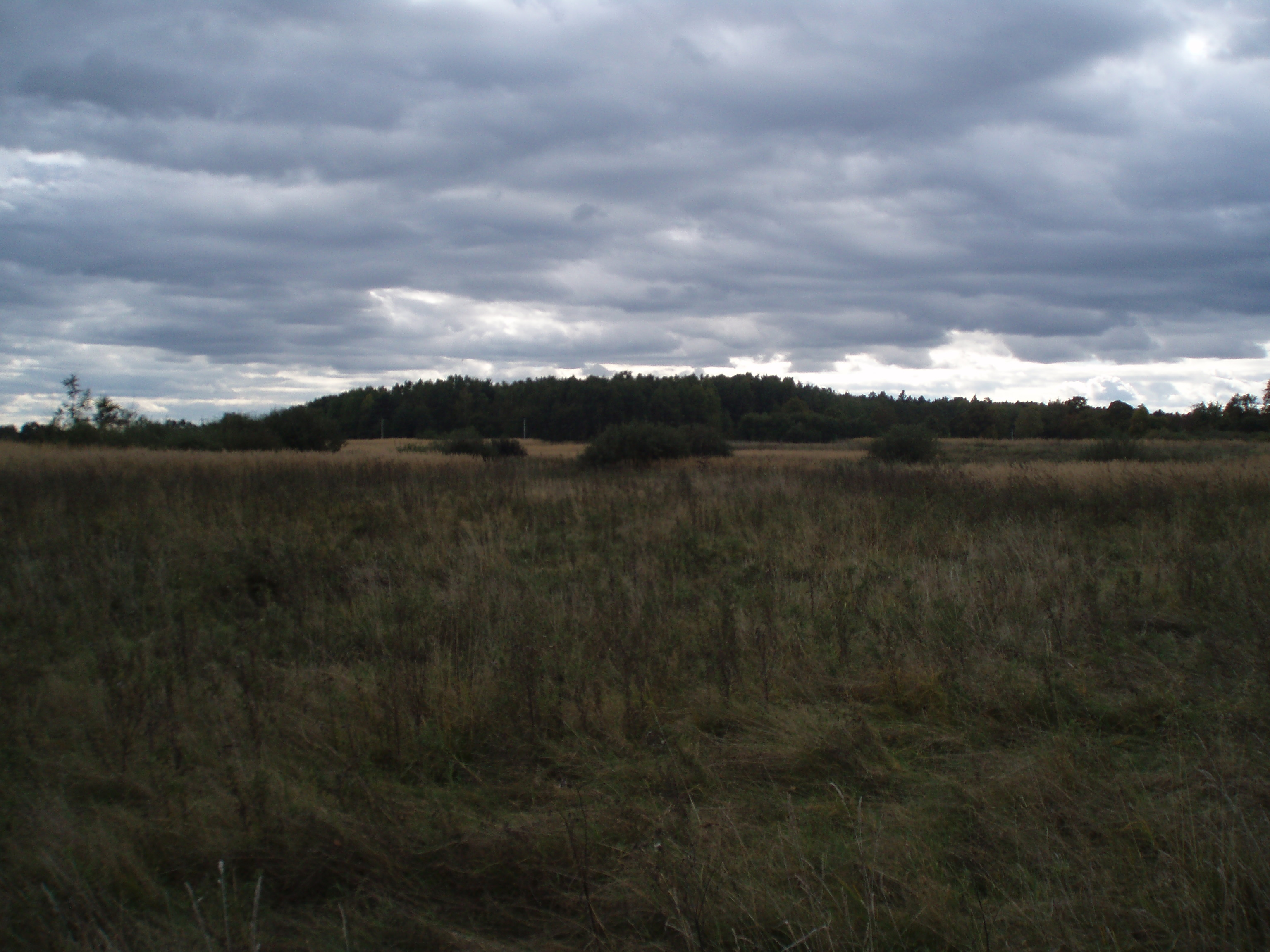 Friedland battlefield. At the year 2013 view from the Russian left wing. In the center in the wood of Sortlach from where the troops of Ney attached